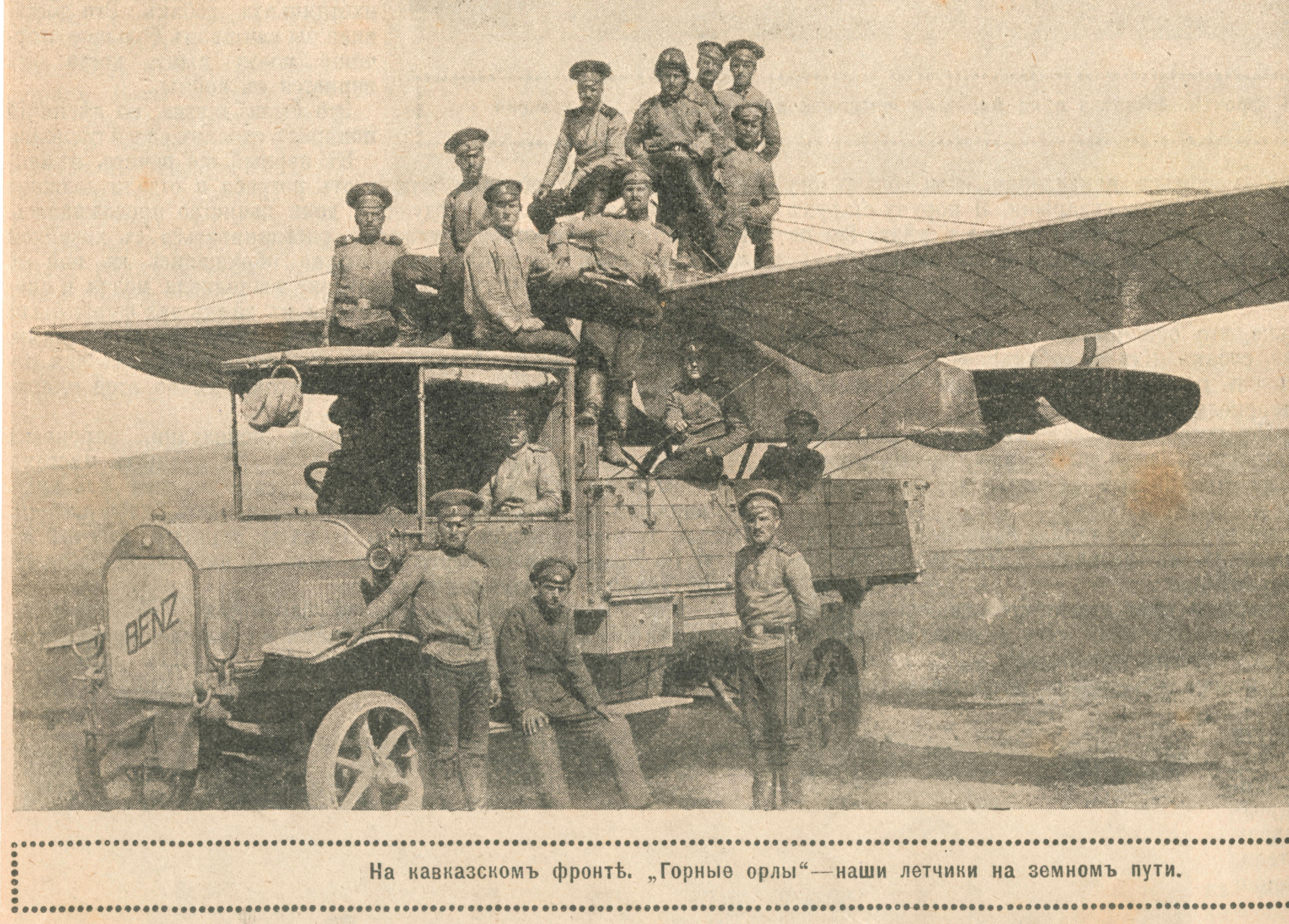 The plane in a truck "Benz". Russians on the Caucasian front. Before march 1916.